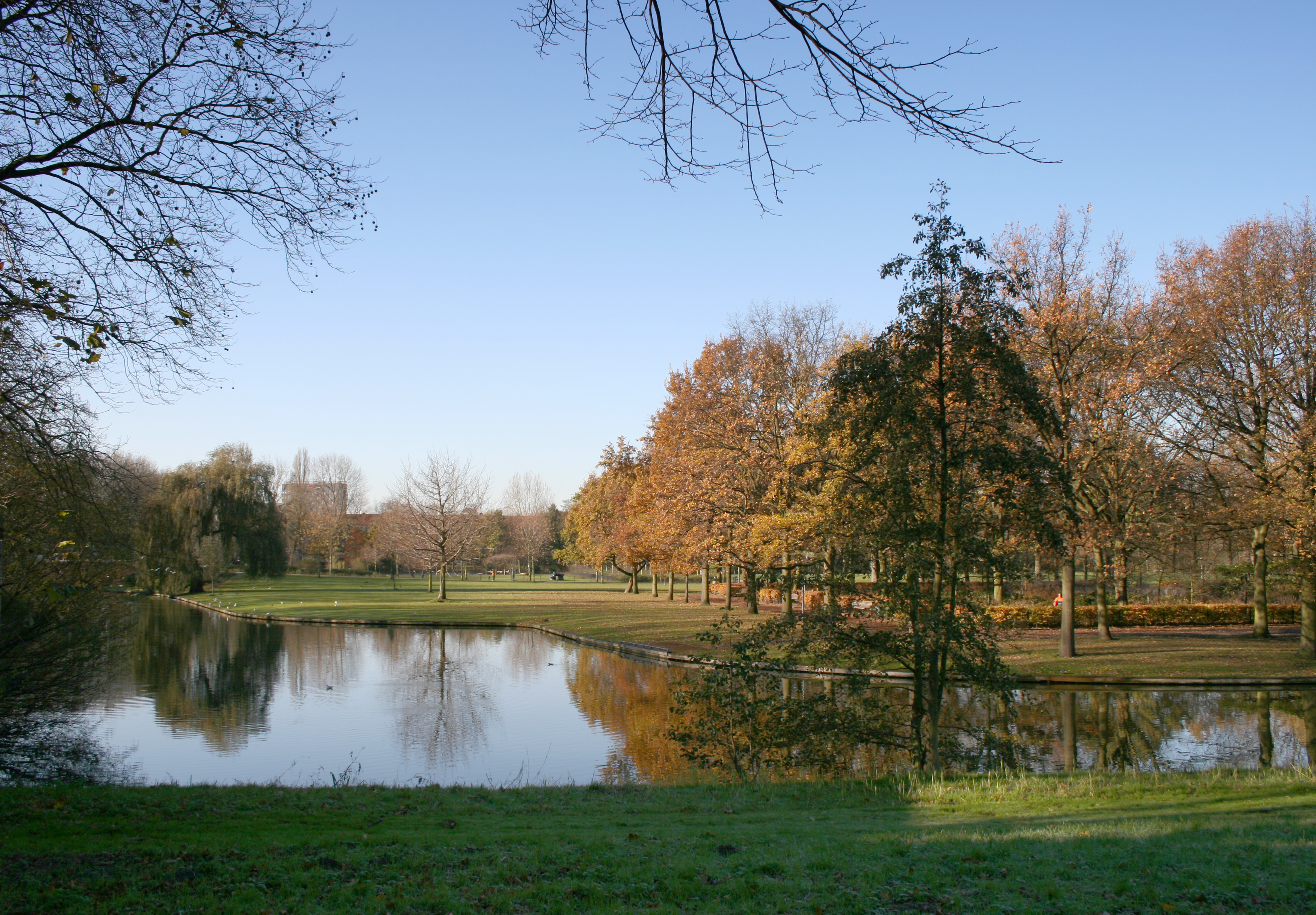 The Erasmuspark is a park in Amsterdam.